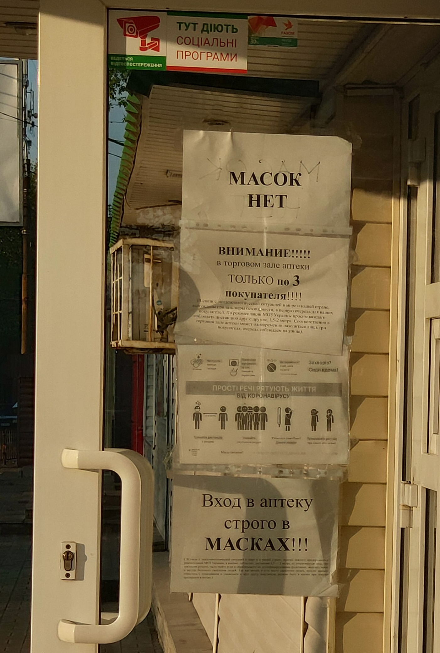 No masks in pharmacy. Dnipro, Ukraine